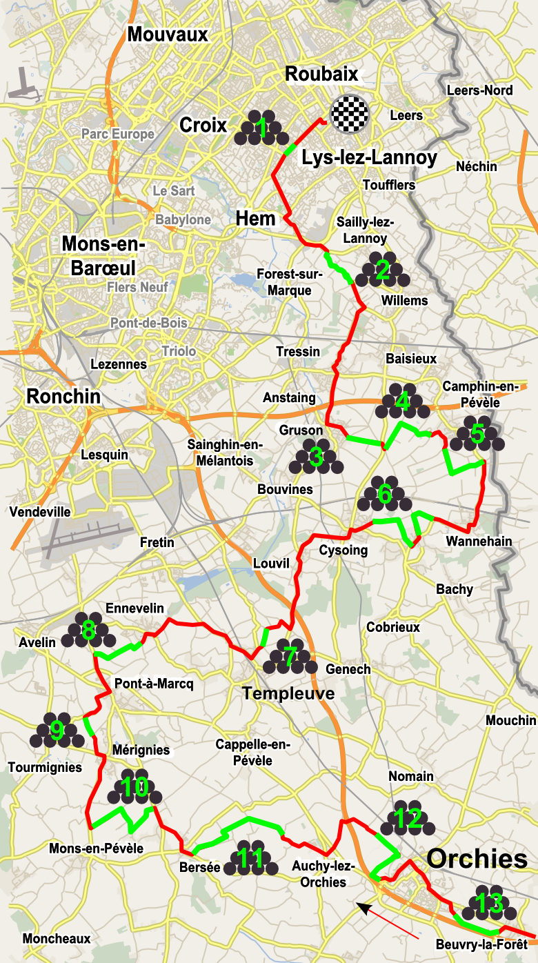 Map of the final of Paris-Roubaix 2016.